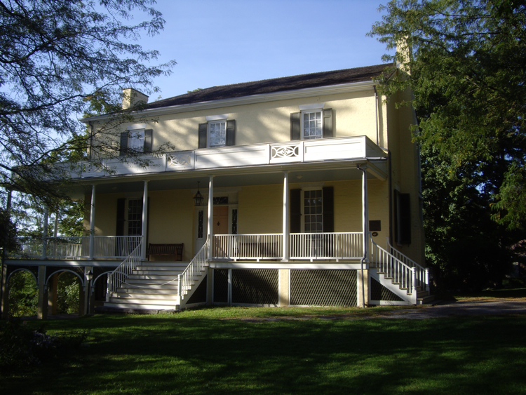 Thomas Cole House